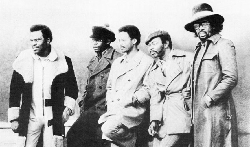 Trade ad for The Manhattans' single "A Million To One". To better adapt it to his respective Wikipedia article, the ad was cropped and cleaned in a graphics editing program. The original can be viewed at the source below.